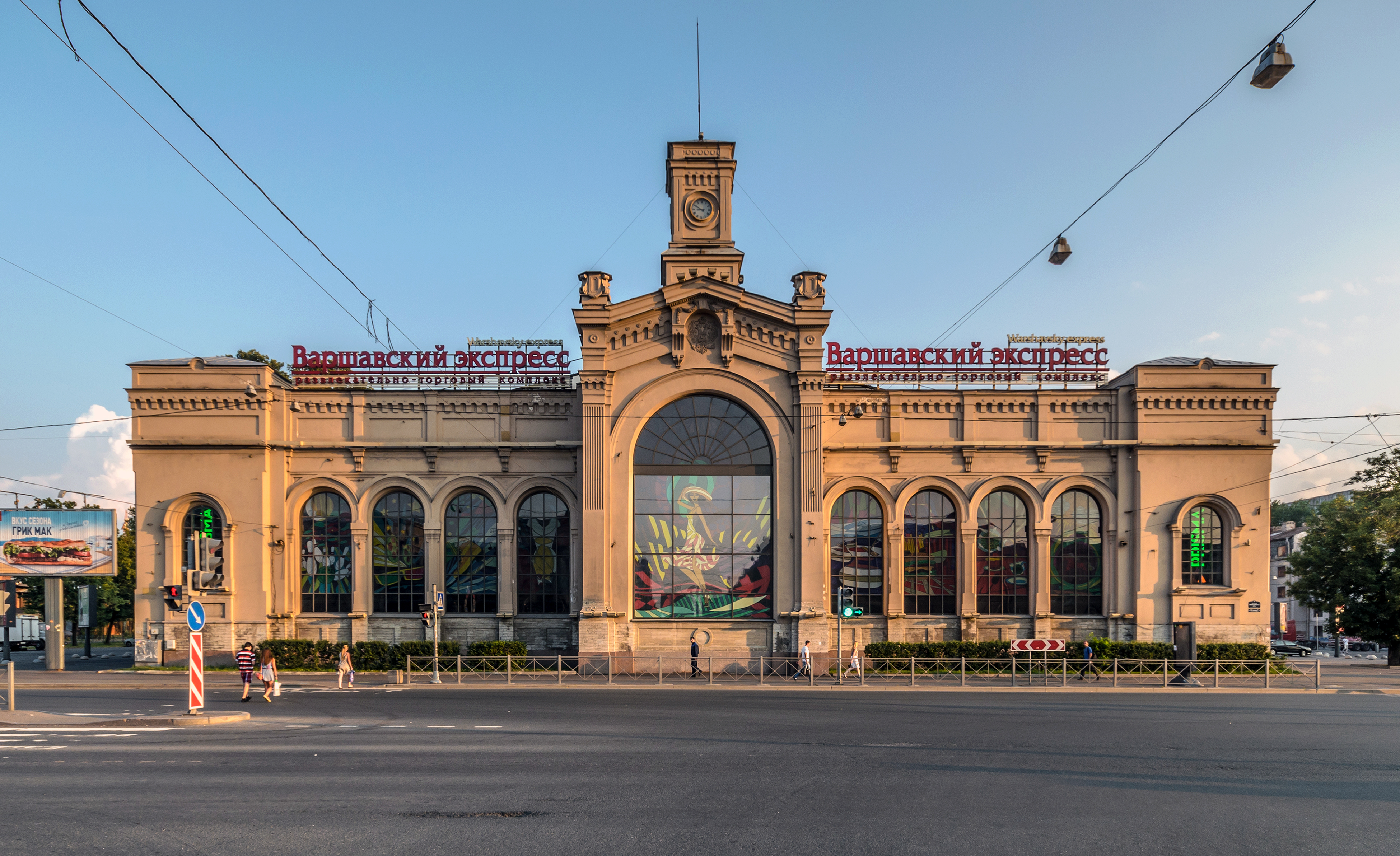 Varshavsky Rail Terminal in Saint Petersburg